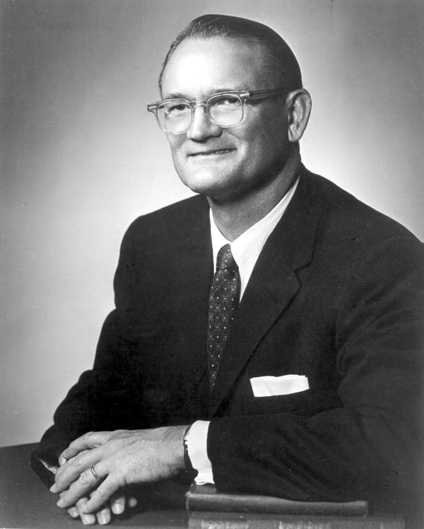 U.S. Congressman Donald Ray (Billy) Matthews